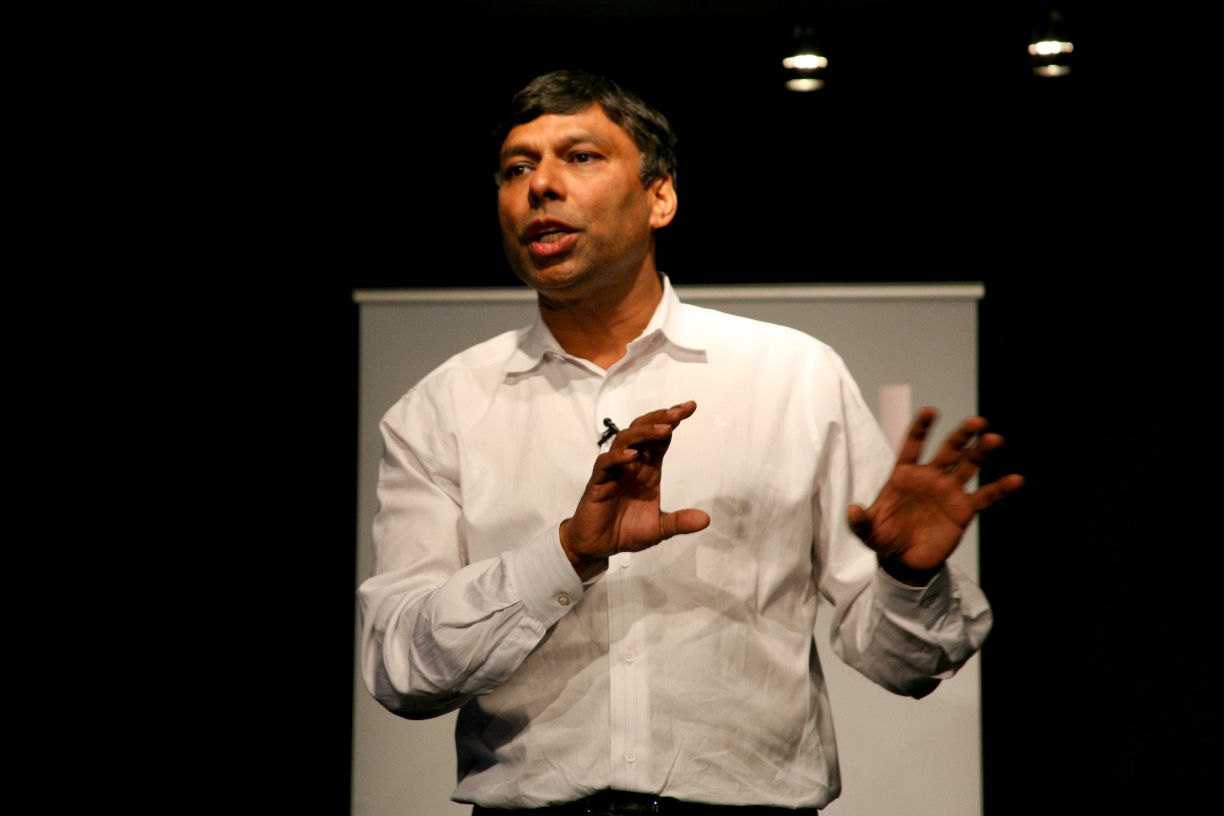 On Wednesday, May 8th, 2013 Tech Cocktail we excited to have Naveen Jain be the speaker for our Special Sessions Speaker Series. Naveen is a Philanthropist, entrepreneur and a technology pioneer. Pictures by Allyson Limon. On Wednesday, May 8th, 2013 Tech Cocktail we excited to have Naveen Jain be the speaker for our Special Sessions Speaker Series. Naveen is a Philanthropist, entrepreneur and a technology pioneer